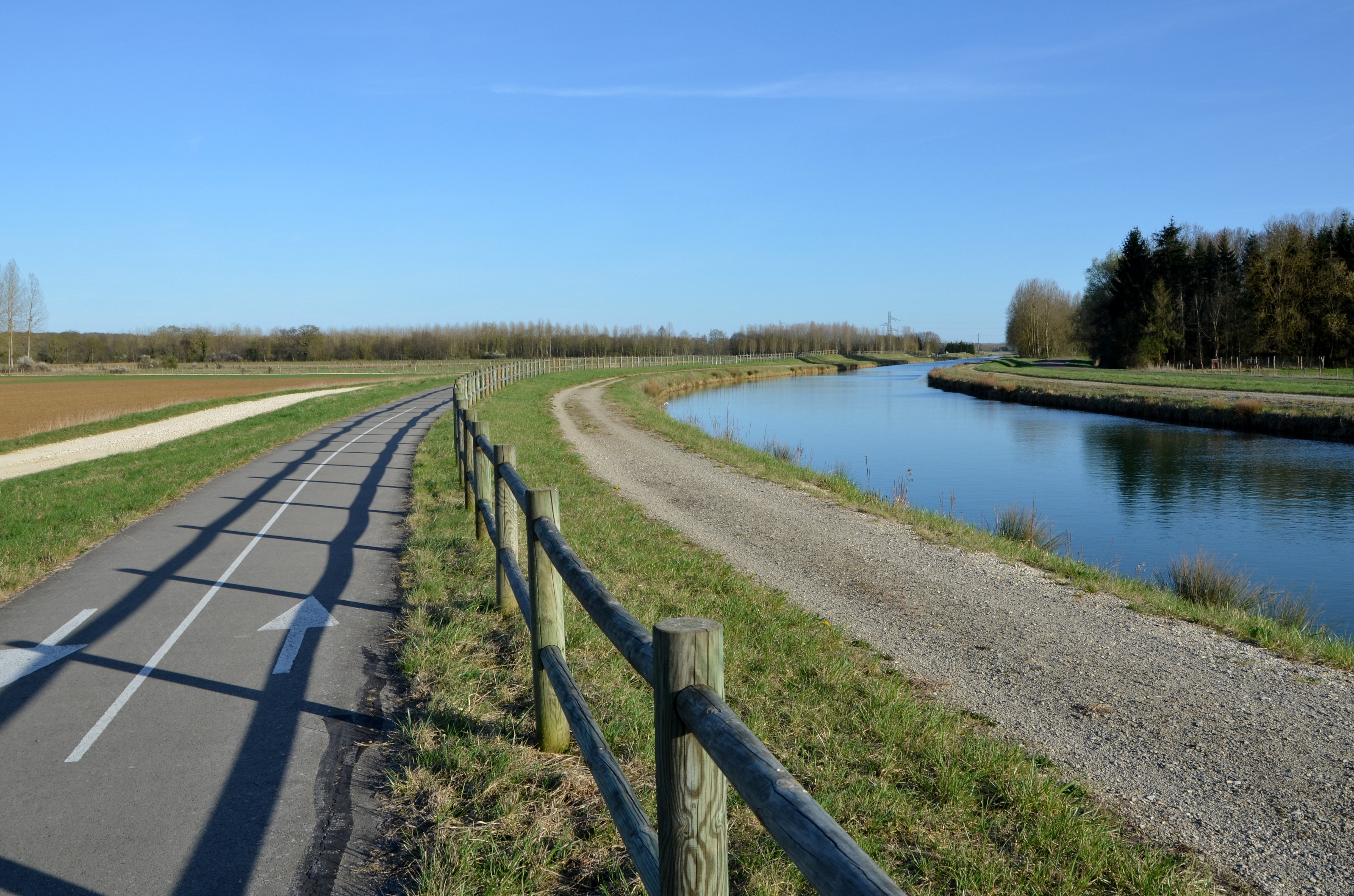 Bikeway and Canal de la Morge, Aube, Champagne, France